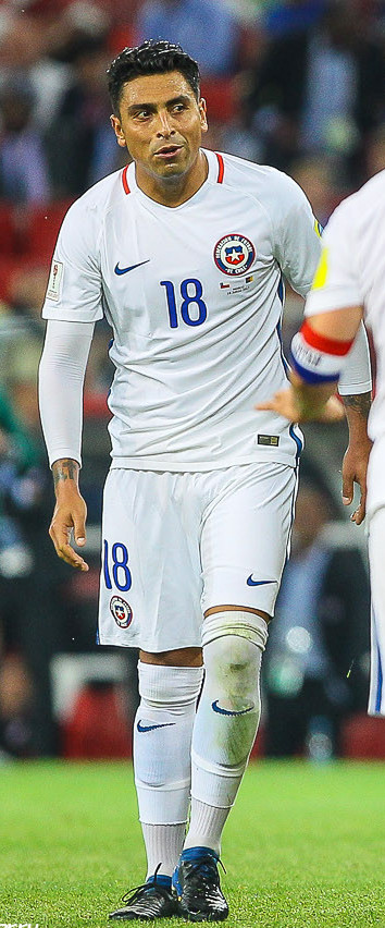 Cameroon vs Chile (0-2). FIFA Confederations Cup 2017